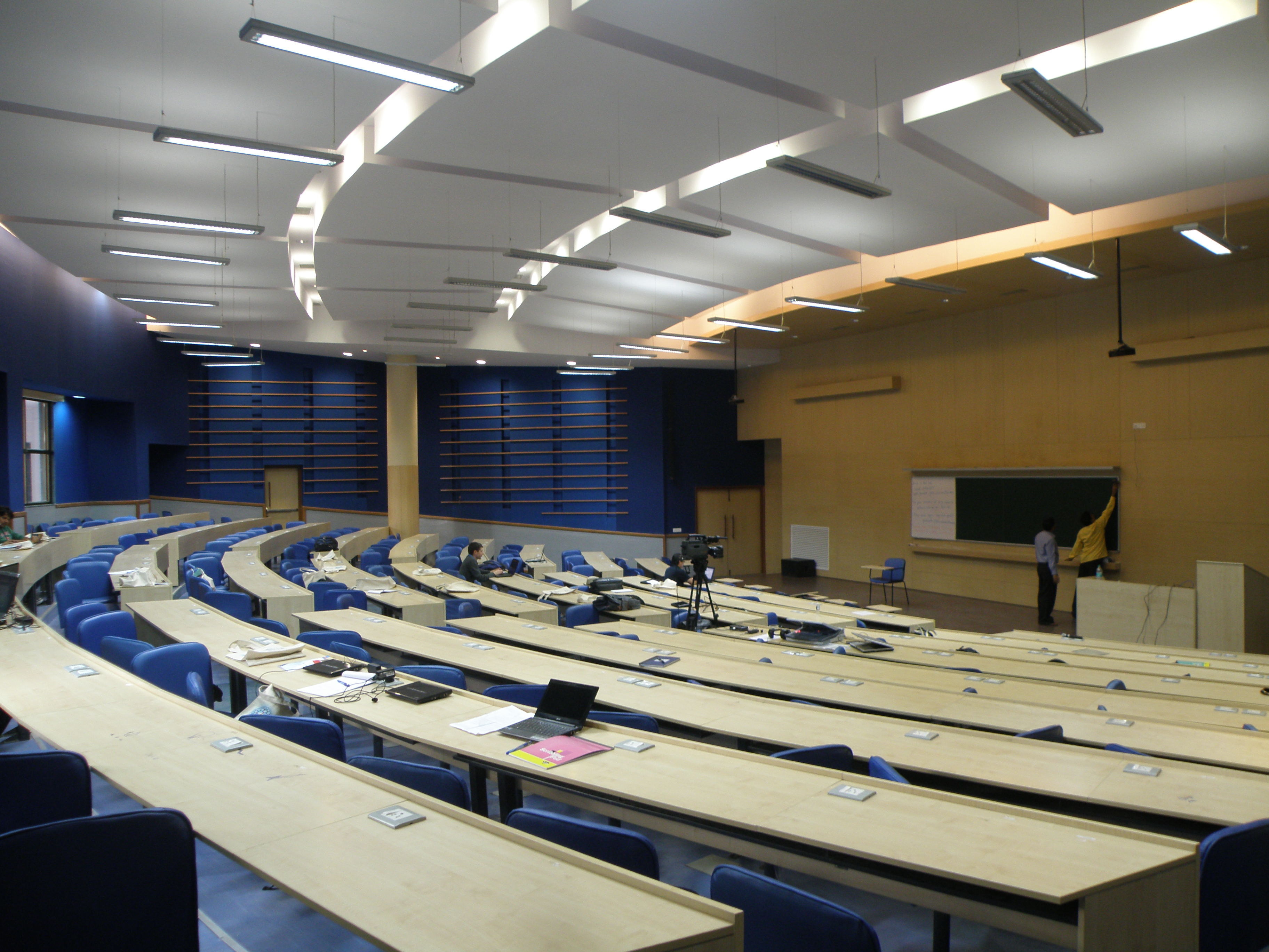 One of the large lecture halls in the Lecture Hall Complex at IIT Bombay